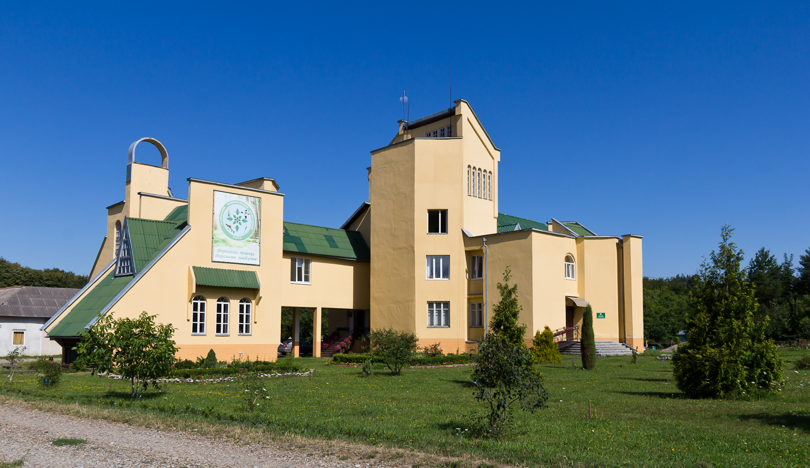 Museum of the Halych National Park